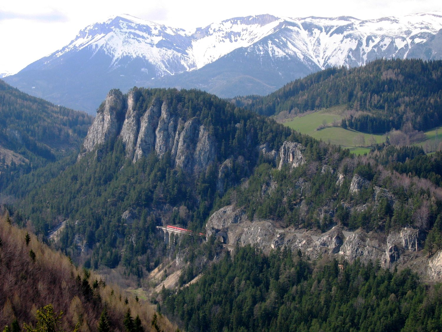 Description: Panorama of the Semmering route with Pollereswand and Rax mountain in the background. On the viaduct a 4010 express railcar can be seen. This picture was taken from the observation tower on the Wolfsbergkogel. own image, taken April 17, 2004 Photographer: Herbert Ortner, Vienna, Austria